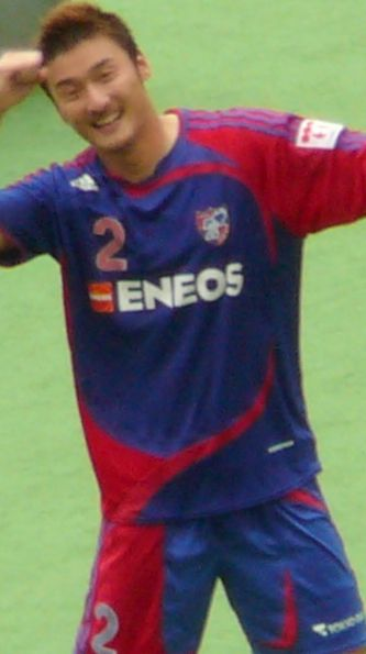 Teruyuki Moniwa from FC Tokyo